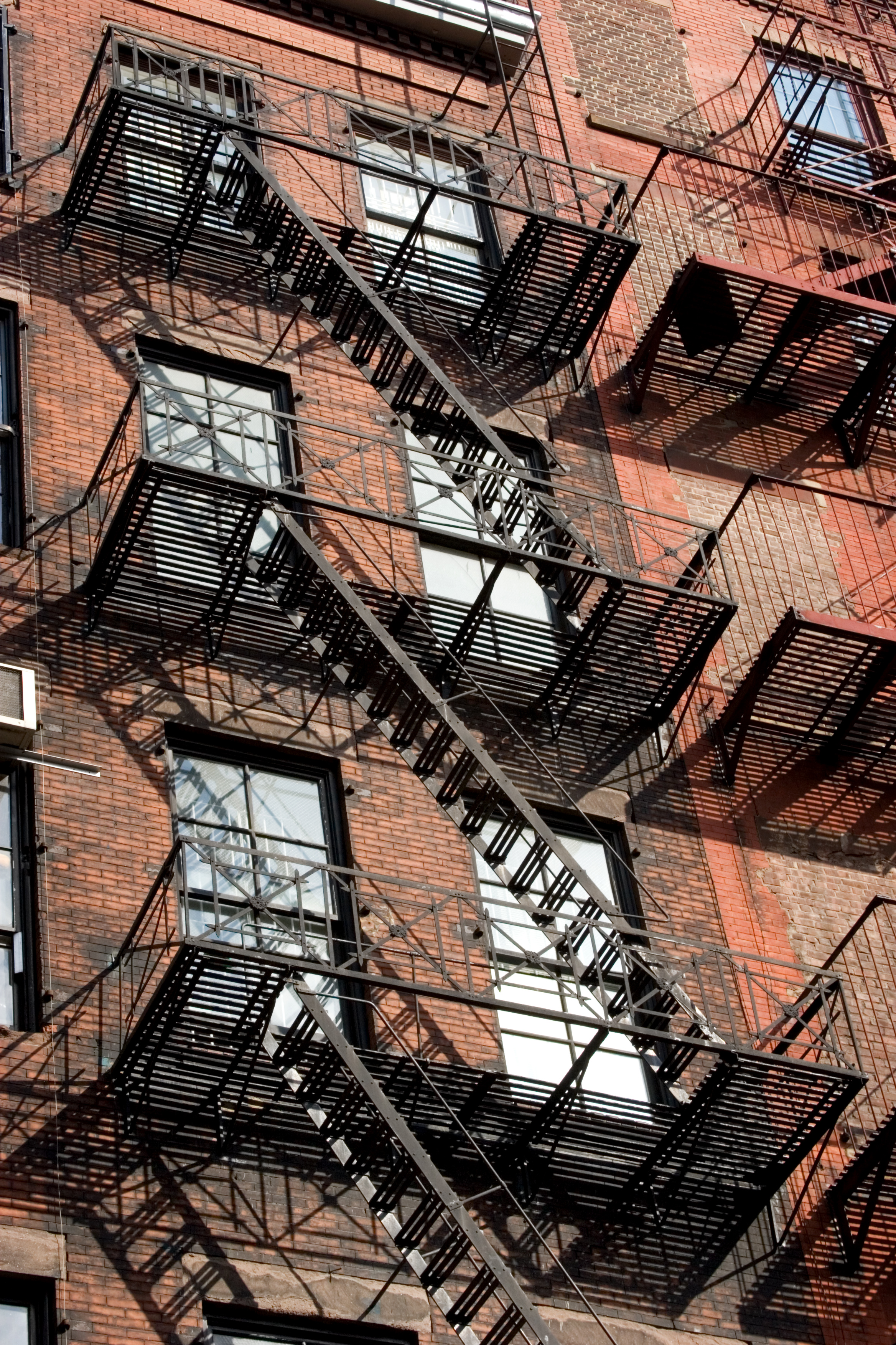 Buildings with fire exit ladders in Soho. New York City 2005